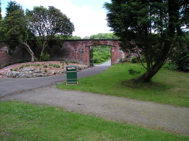 Entrance to Walled Garden at Haigh Hall